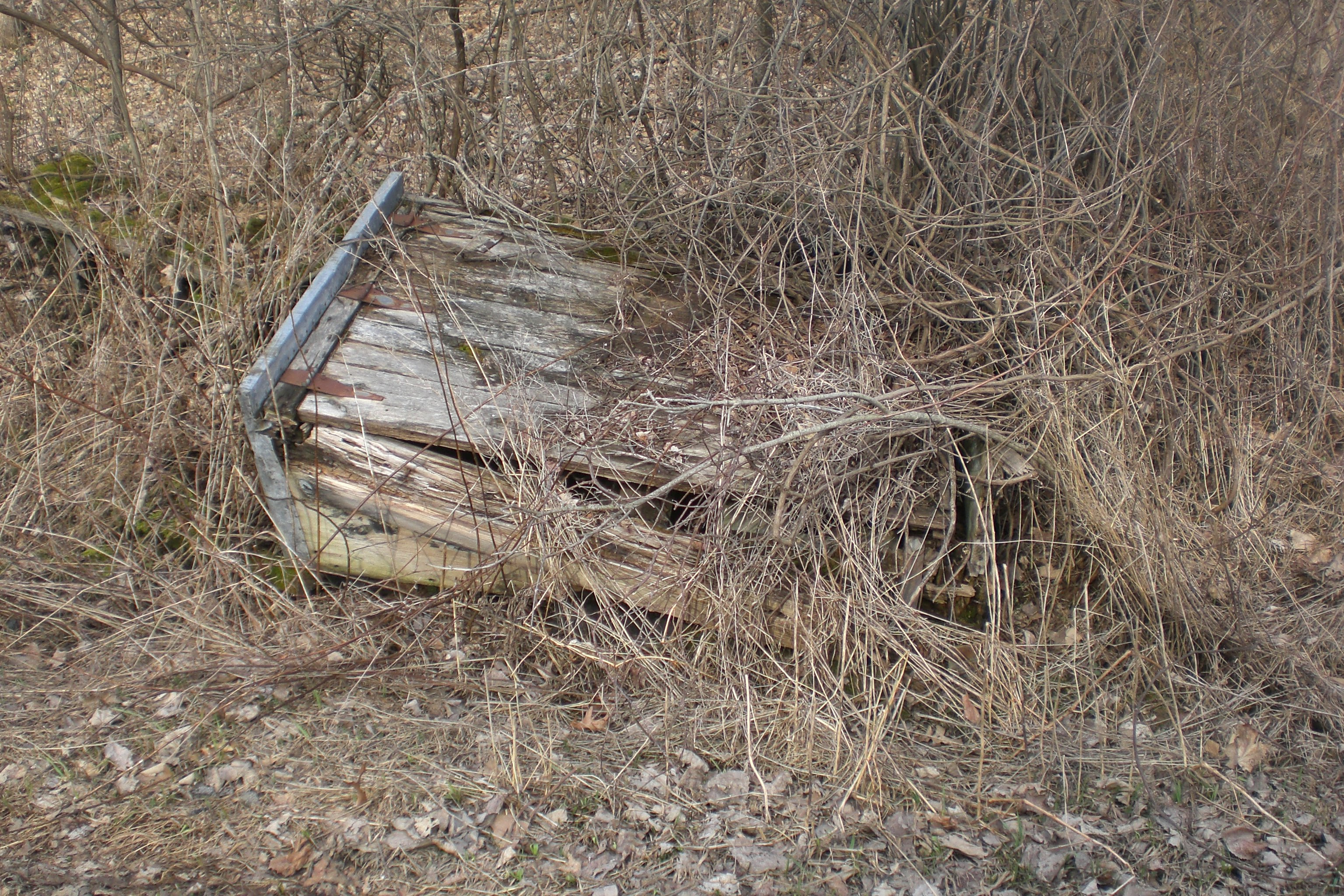 A signal box at the former Boston Corners railroad station is all that remains.